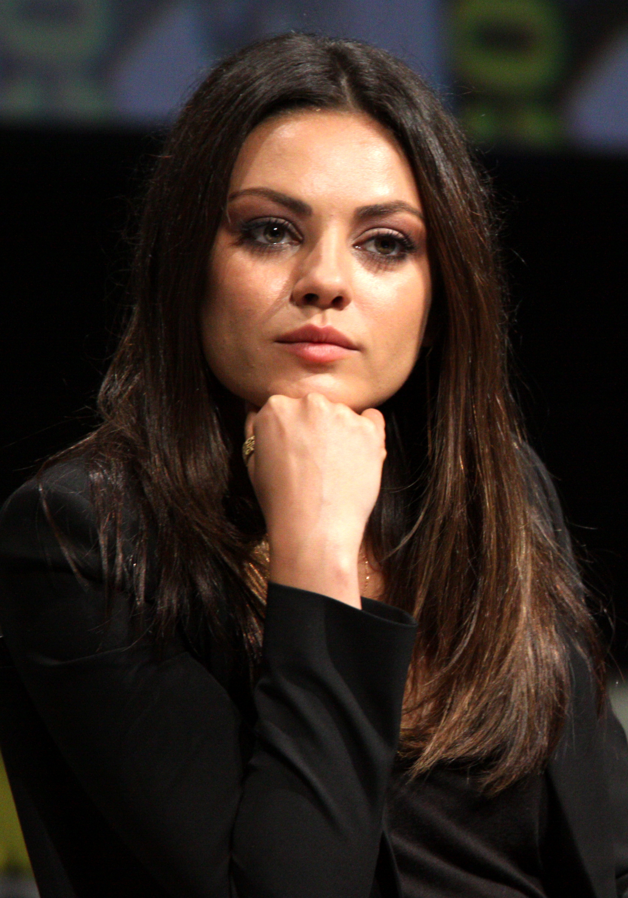 Mila Kunis at the 2012 Comic-Con in San Diego.